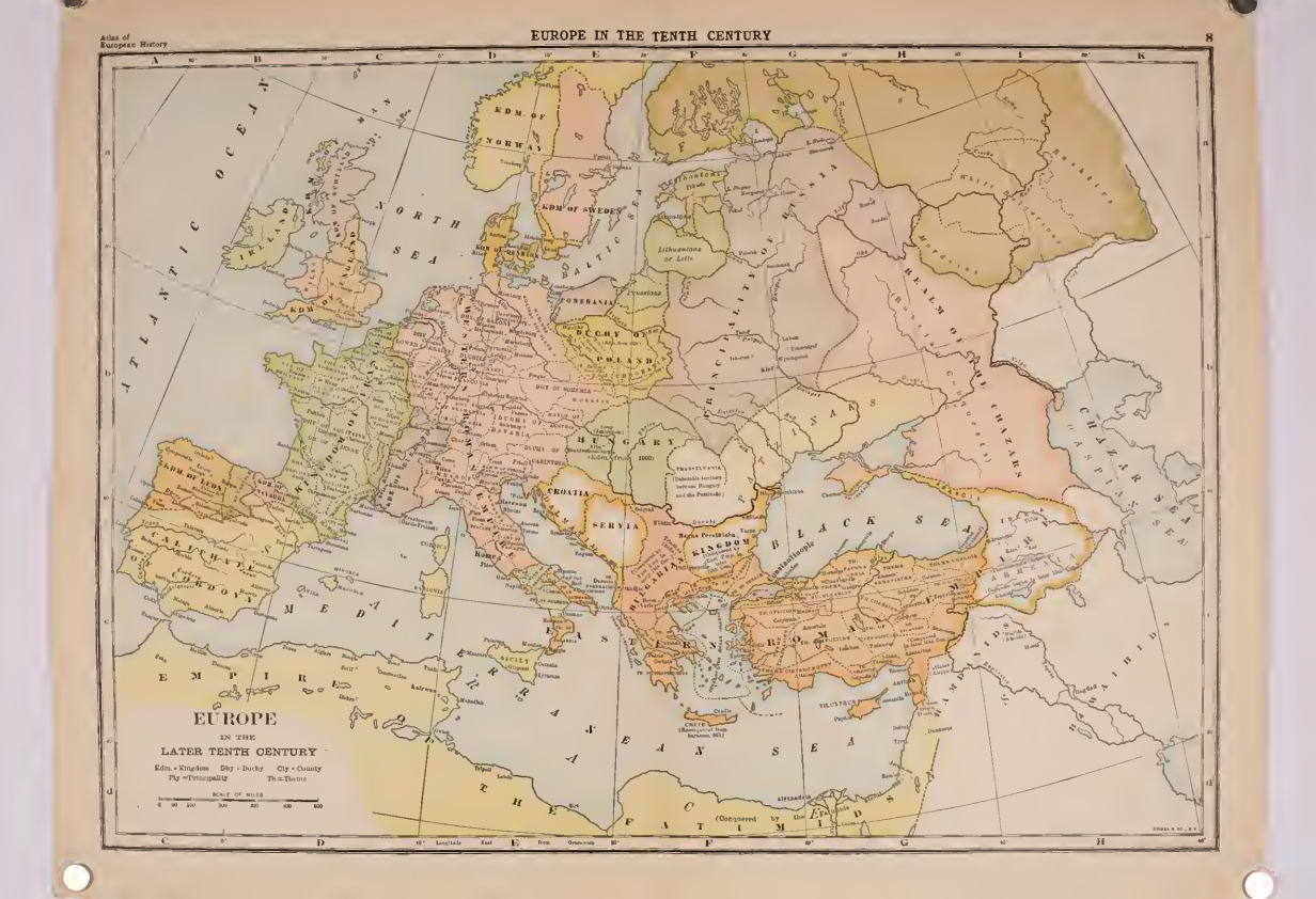 Europe in the 10th century (Atlas of European history, 1909)